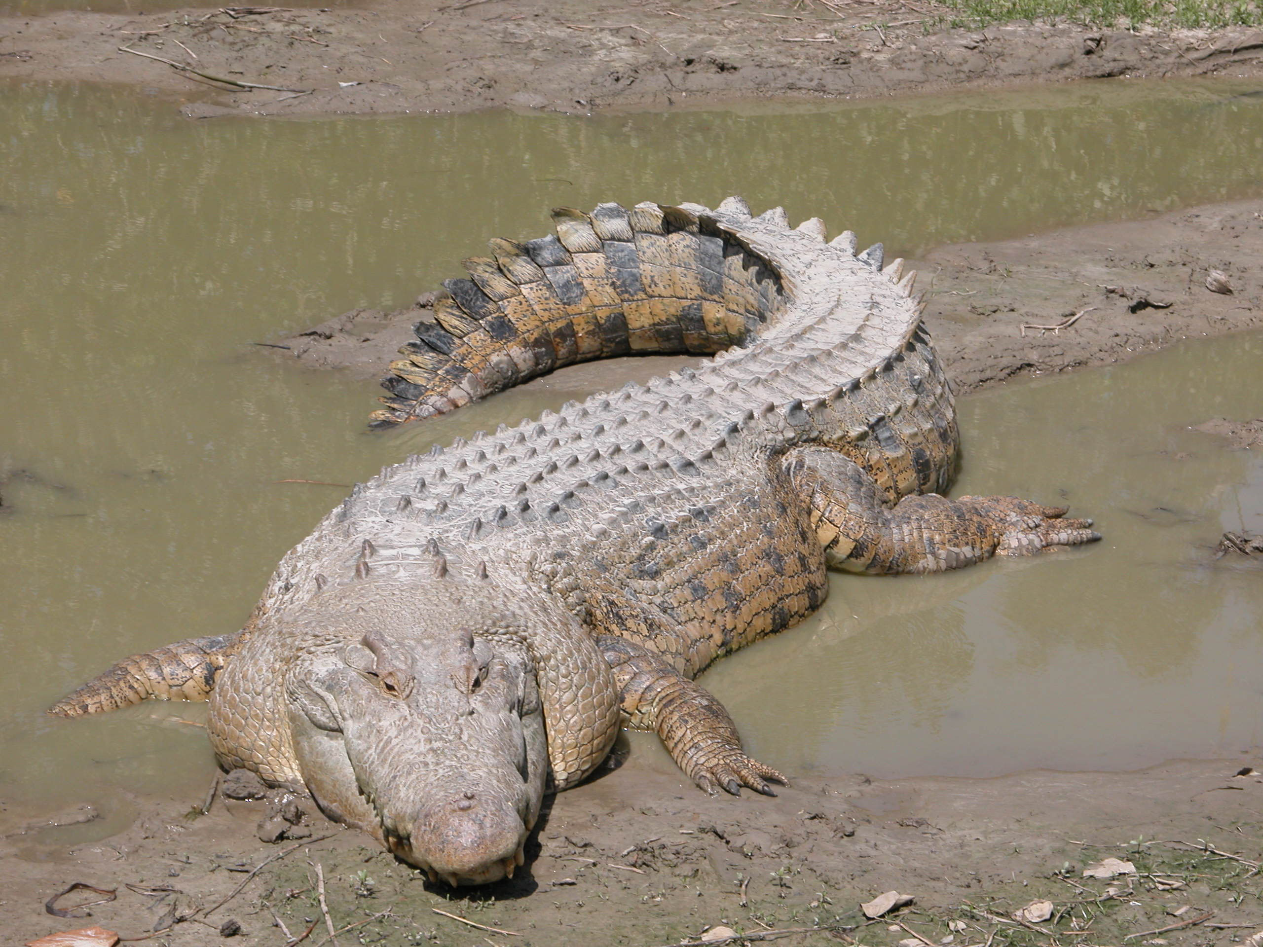 Saltwater Crocodile (Crocodylus porosus)This is Maximo a 15'+ crocodile at the St. Augustine Alligator Farm.